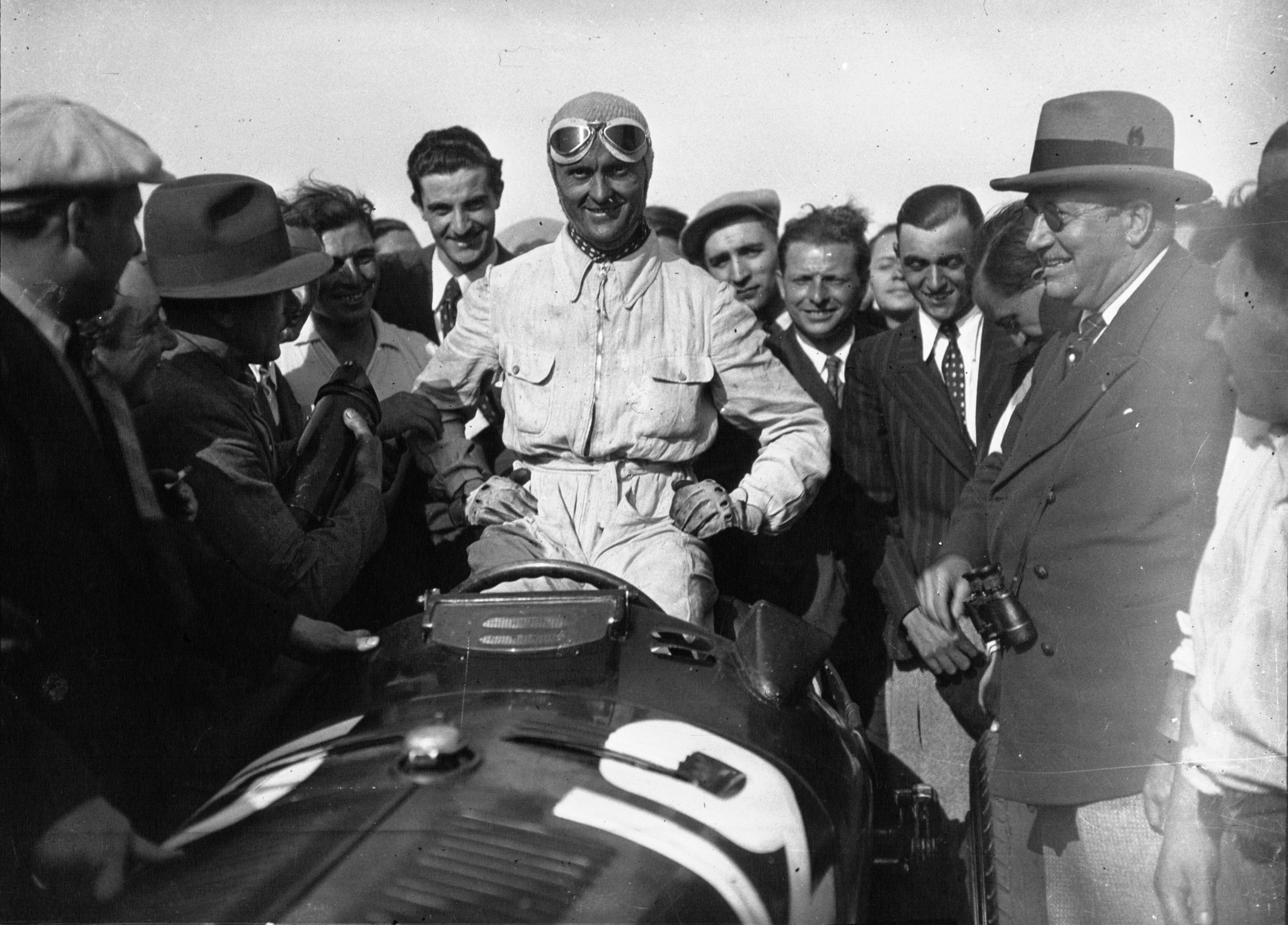 Louis Chiron after winning the 1934 French Grand Prix with Alfa Romeo P3